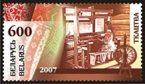 Stamp of Belarus